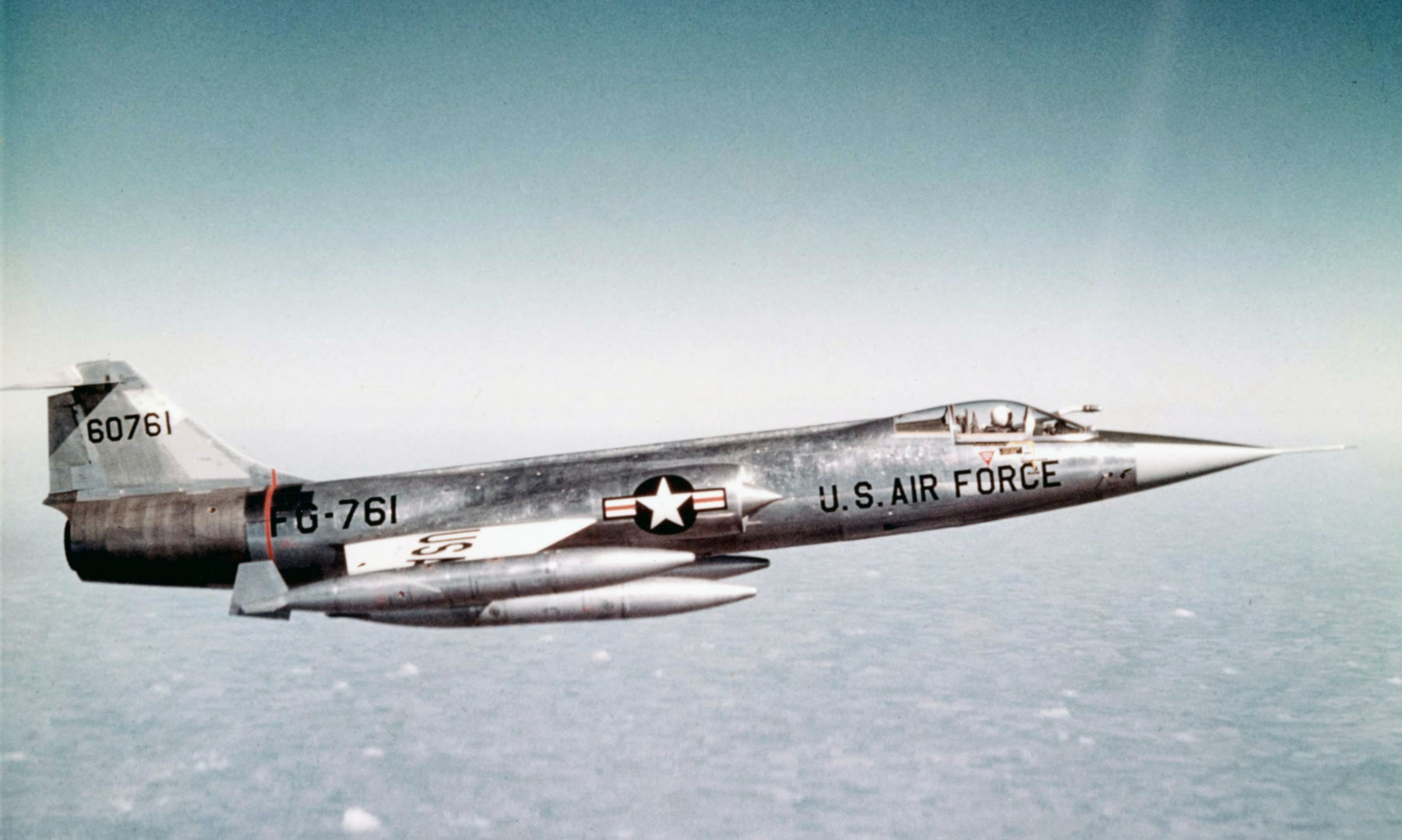 A U.S. Air Force Lockheed F-104A-10-LO Starfighter (s/n 56-0761) in flight. Note that the aircraft is equipped with an inflight refueling probe.